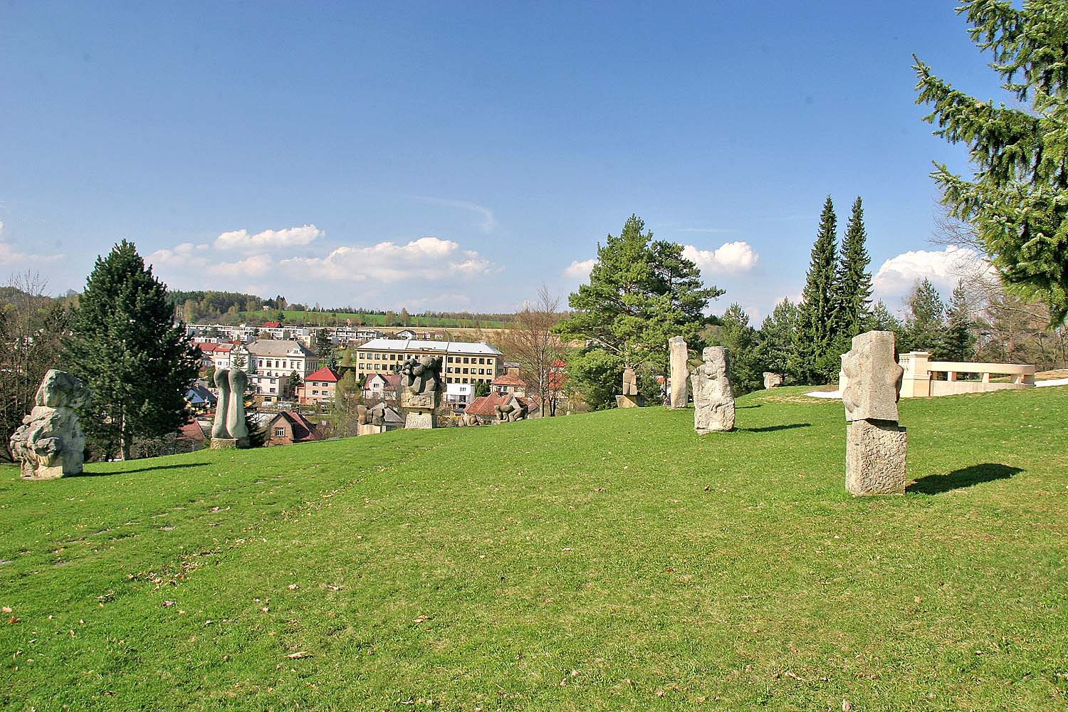 Outdoor gallery of sculptures in Hořice, Jičín District, Czech Republic autor: Prazak date: 24. 4. 2006